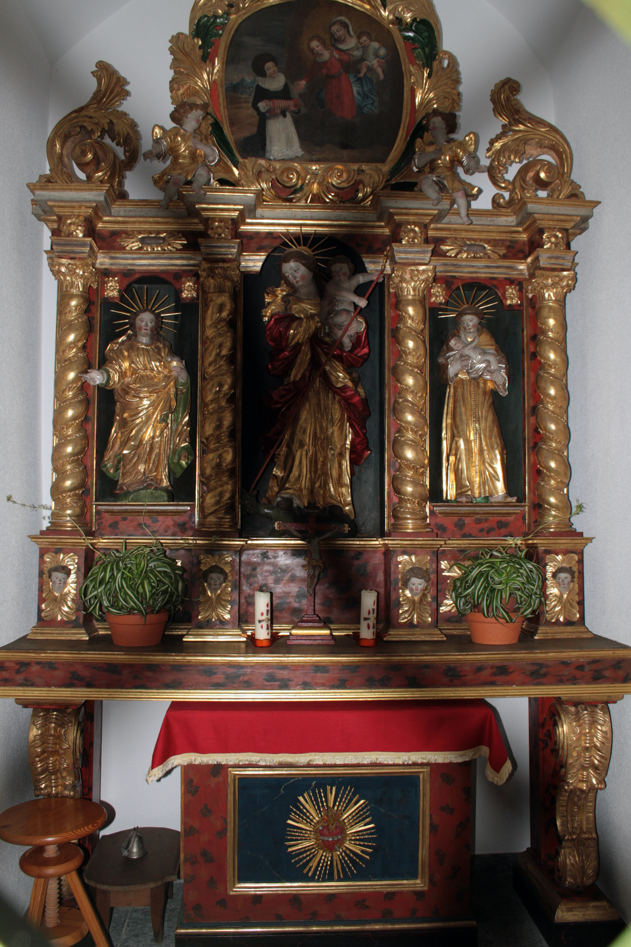 Muttergotteskapelle Bürchen Altar 1694 by Ritz